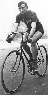 Since Lambot retired in 1922, this image must be out of copyright. – Quadell (talk) (random) 14:10, 10 July 2007 (UTC)